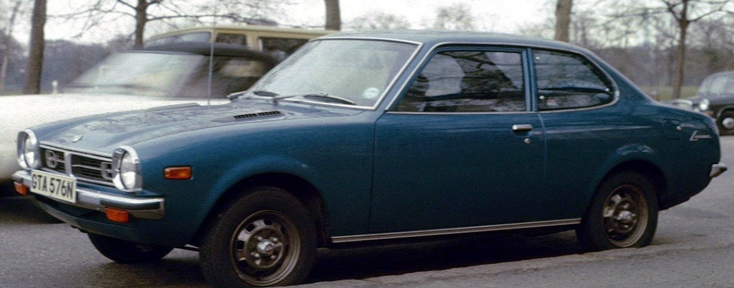 Mitsubishi Lancer First Generation two door version in London Further details courtesy of DVLA: Date of first registration: January 1975 Year of manufacture: 1975 Cylinder capacity (cc): 1597 cc Taxed for UK road use till 1985